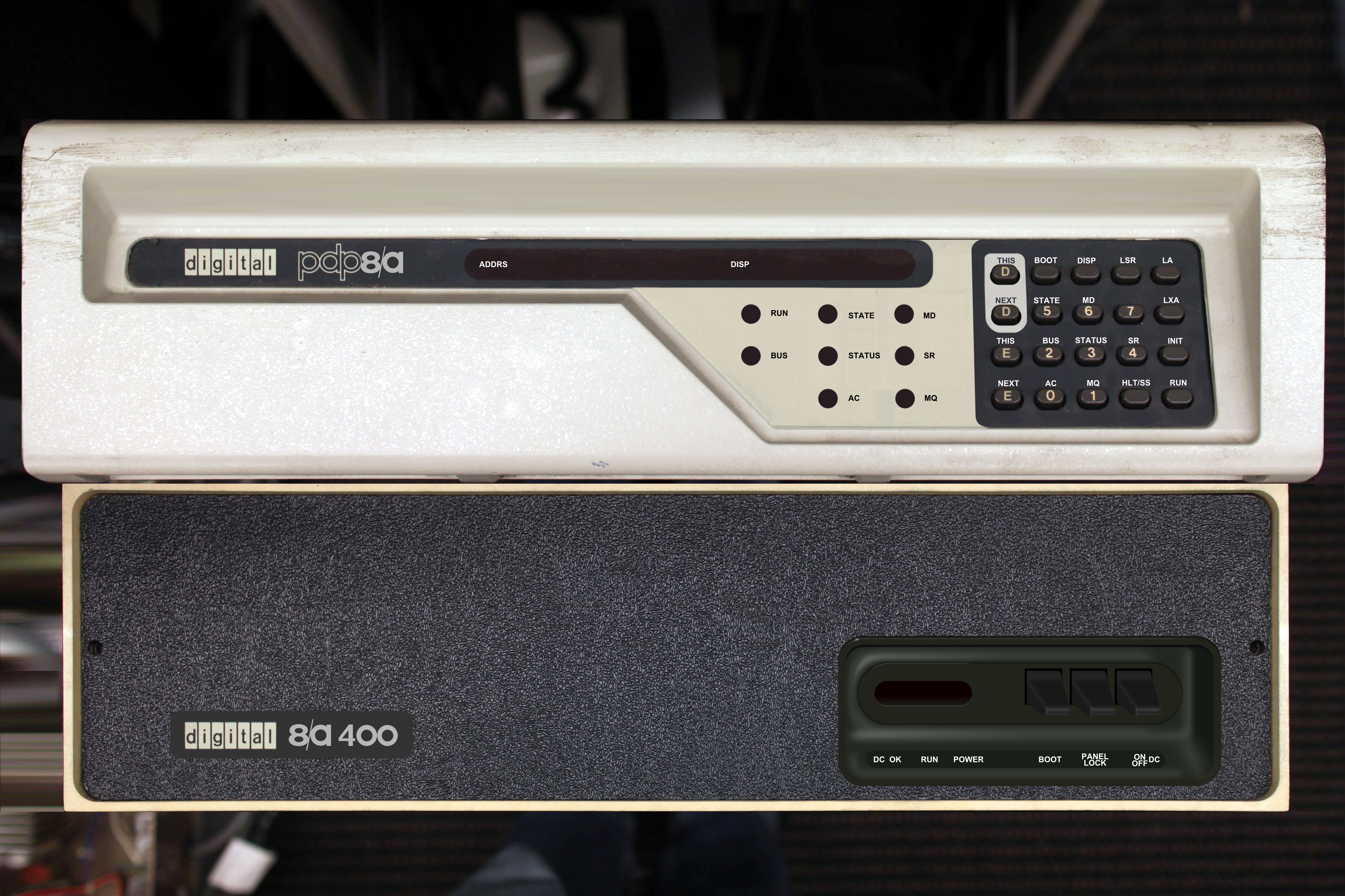 DEC PDP-8/A, the same model of minicomputer used on the earliest digital sampler, Computer Music Melodian (1976) by Harry Mendell. top: DEC PDP-8/A, front panel with the octal keypad and LED read-out bottom: DEC 8/A 400 unit for PDP-8/A.